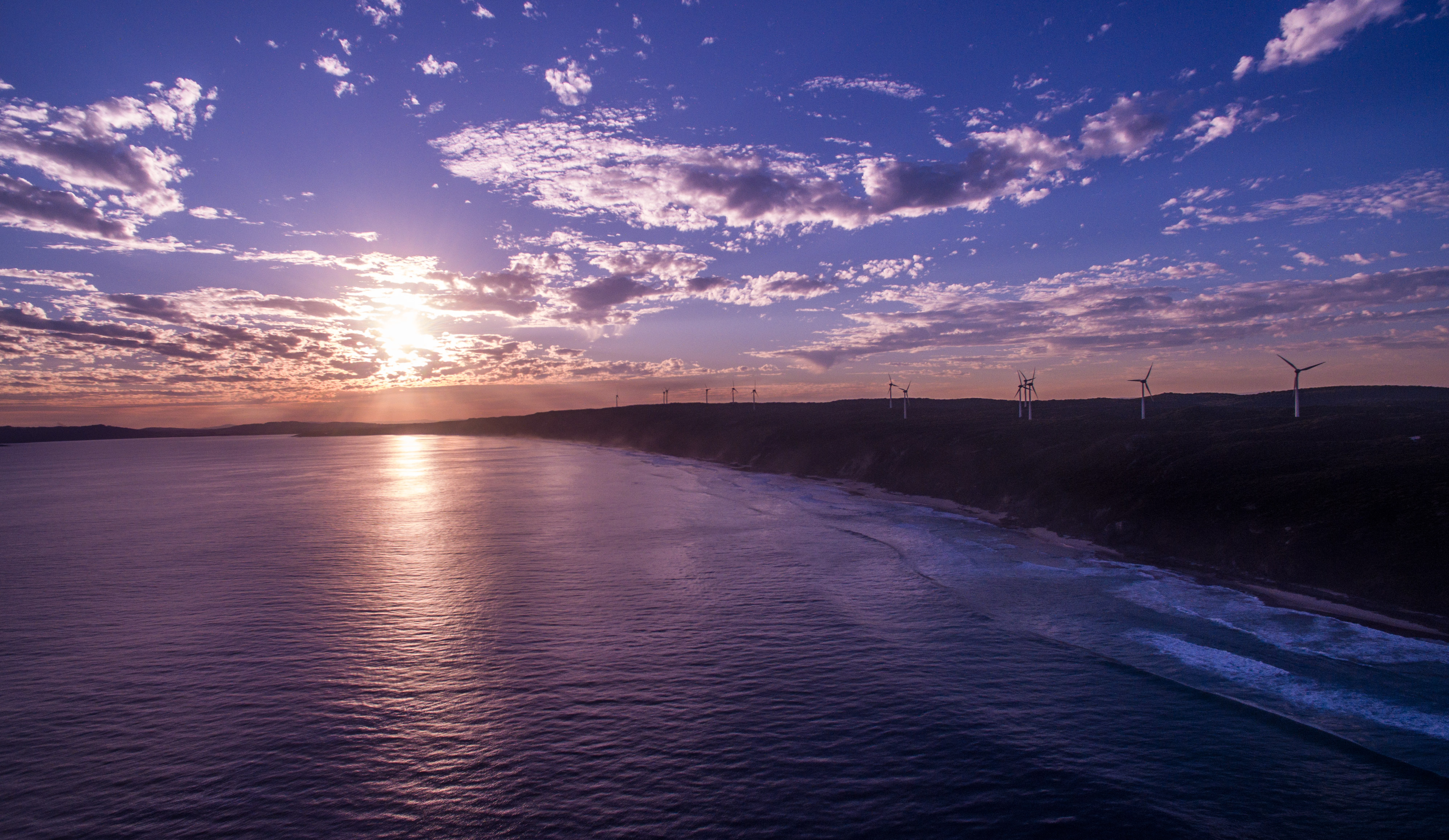 Sandpatch: Albany Wind Farm, WA